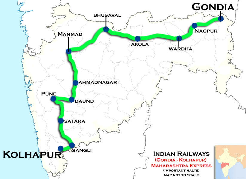 Maharashtra Express (Gondia - Kolhapur) route map